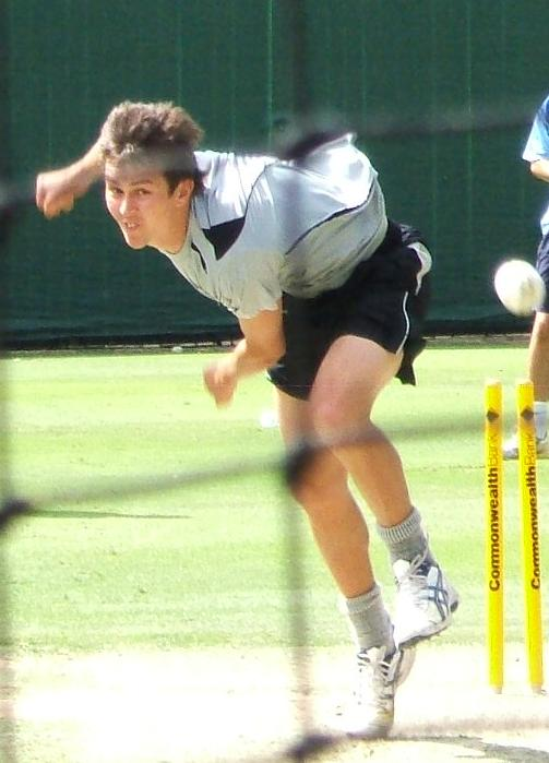 Trent Boult at a training session at the Adelaide Oval